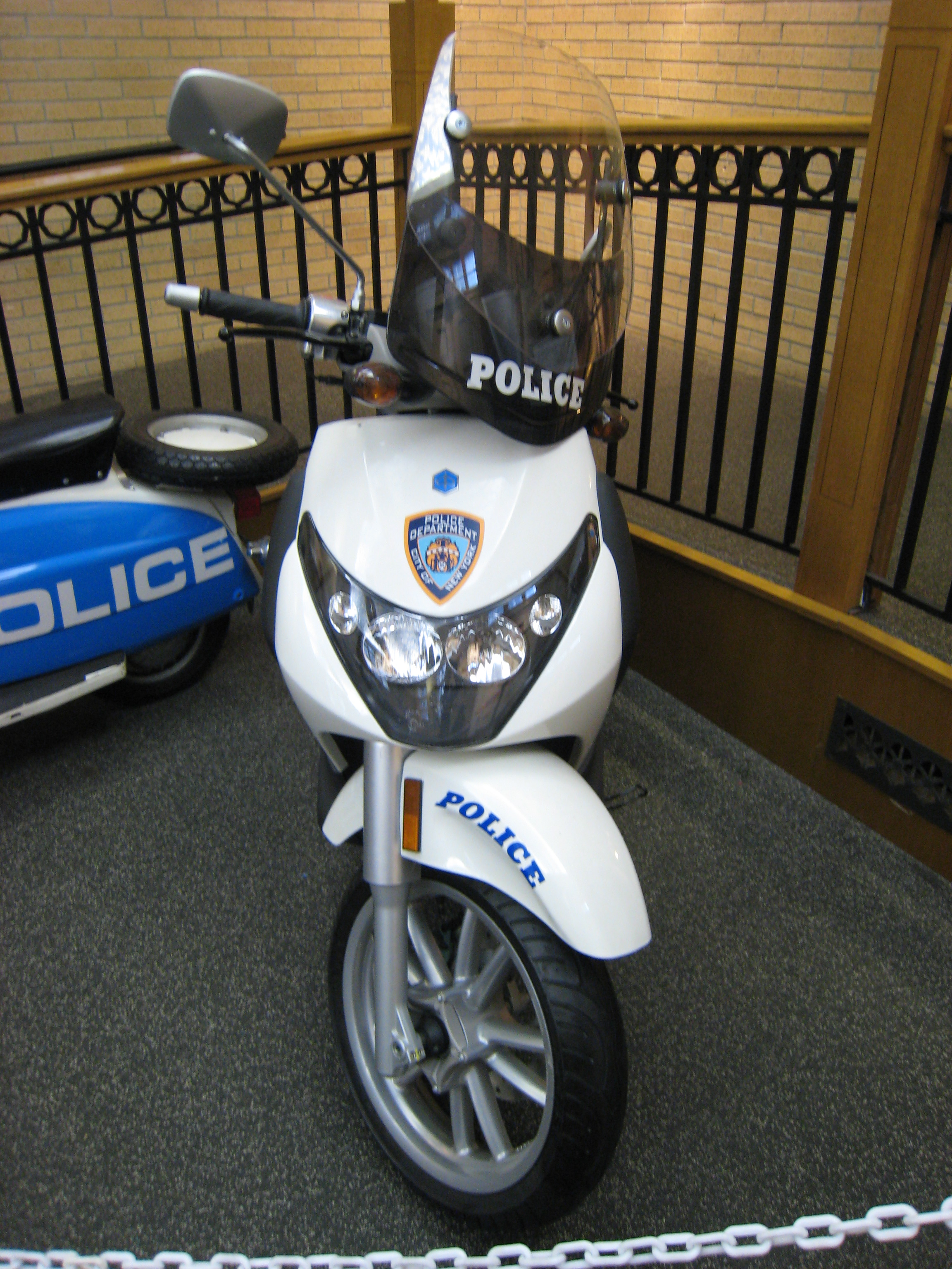 Southsea Street/Financial District (NYC Police Museum). Wow, a police scooter.